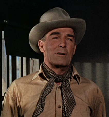 Randolph Scott in Buchanan Rides Alone (1958)